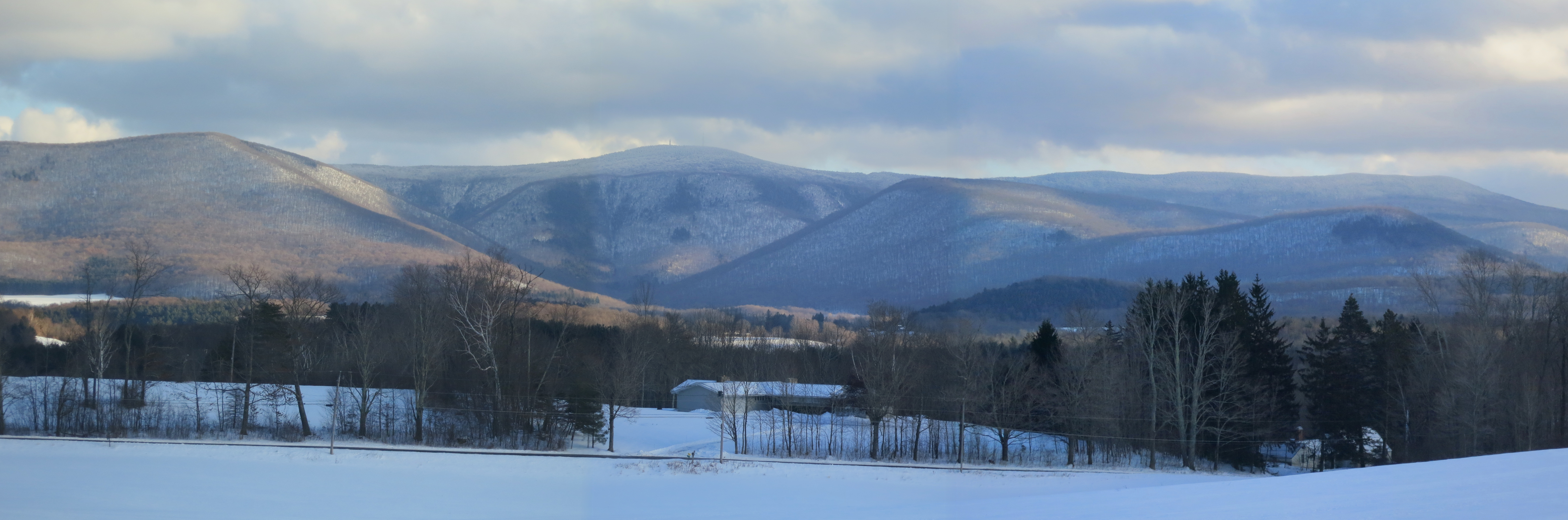 Mt. Greylock after December snowfall